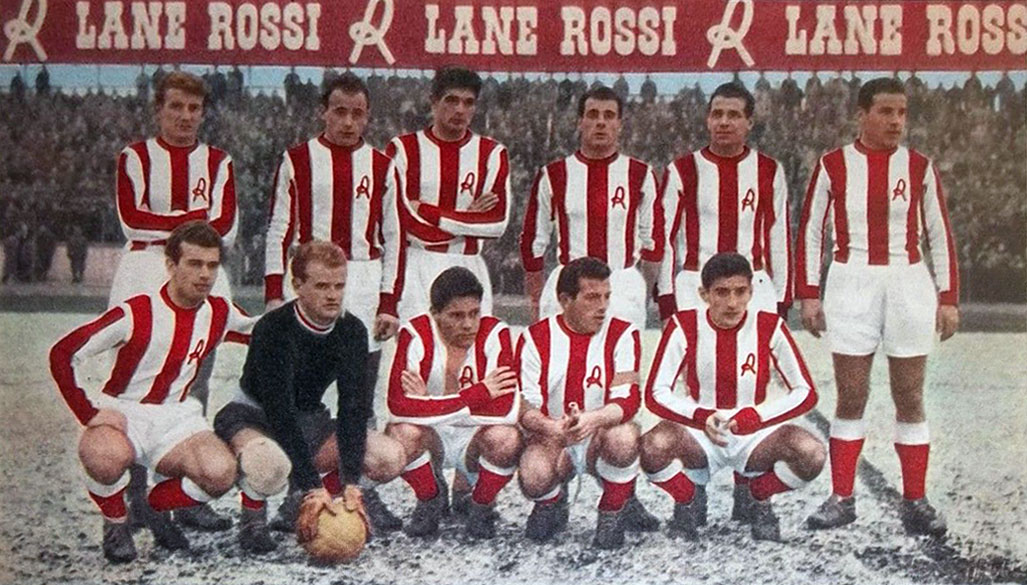 A line-up of A.C. Lanerossi Vicenza in the 1953–54 season. From left to right, standing: M. David, E. Binda, L. Mora, R. Lancioni, L. Testa, G. Savoini; crouched: G. Formica, P. Borriero, G. Fabris, E. Dal Pos (captain), E. Bonci.